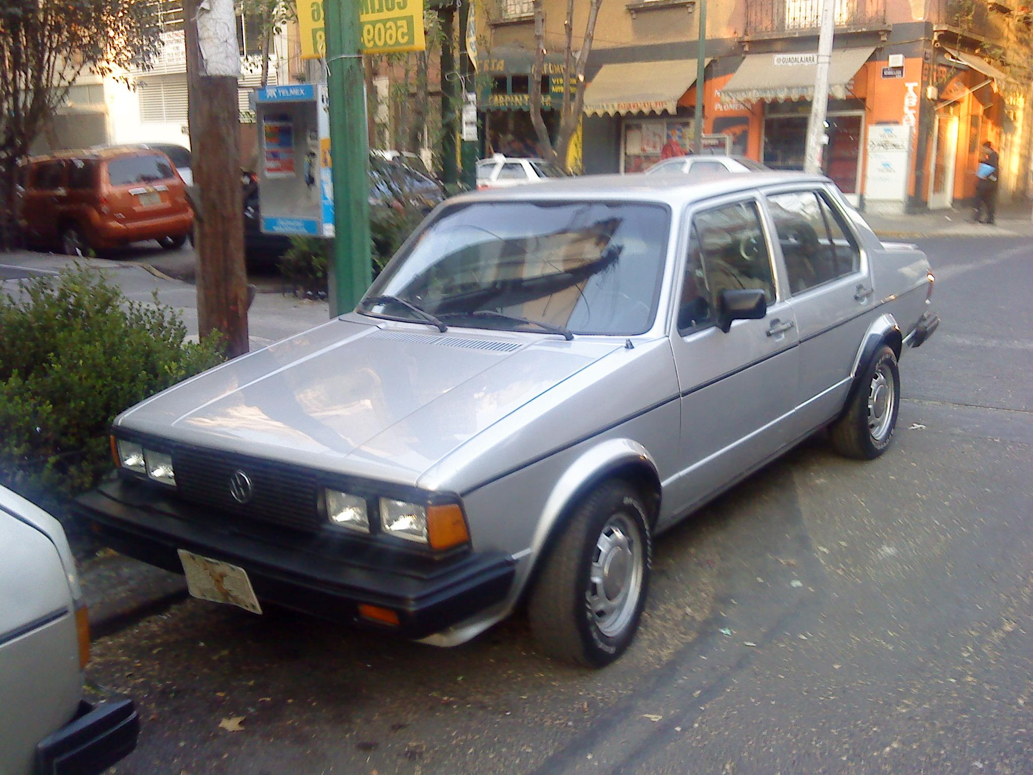 Volkswagen Atlantic GL 1986 Mexican specification